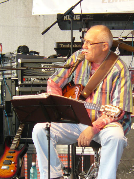 Romanian musician Béla Kamocsa in concert with the Bega Blues Band. Live in Timişoara.